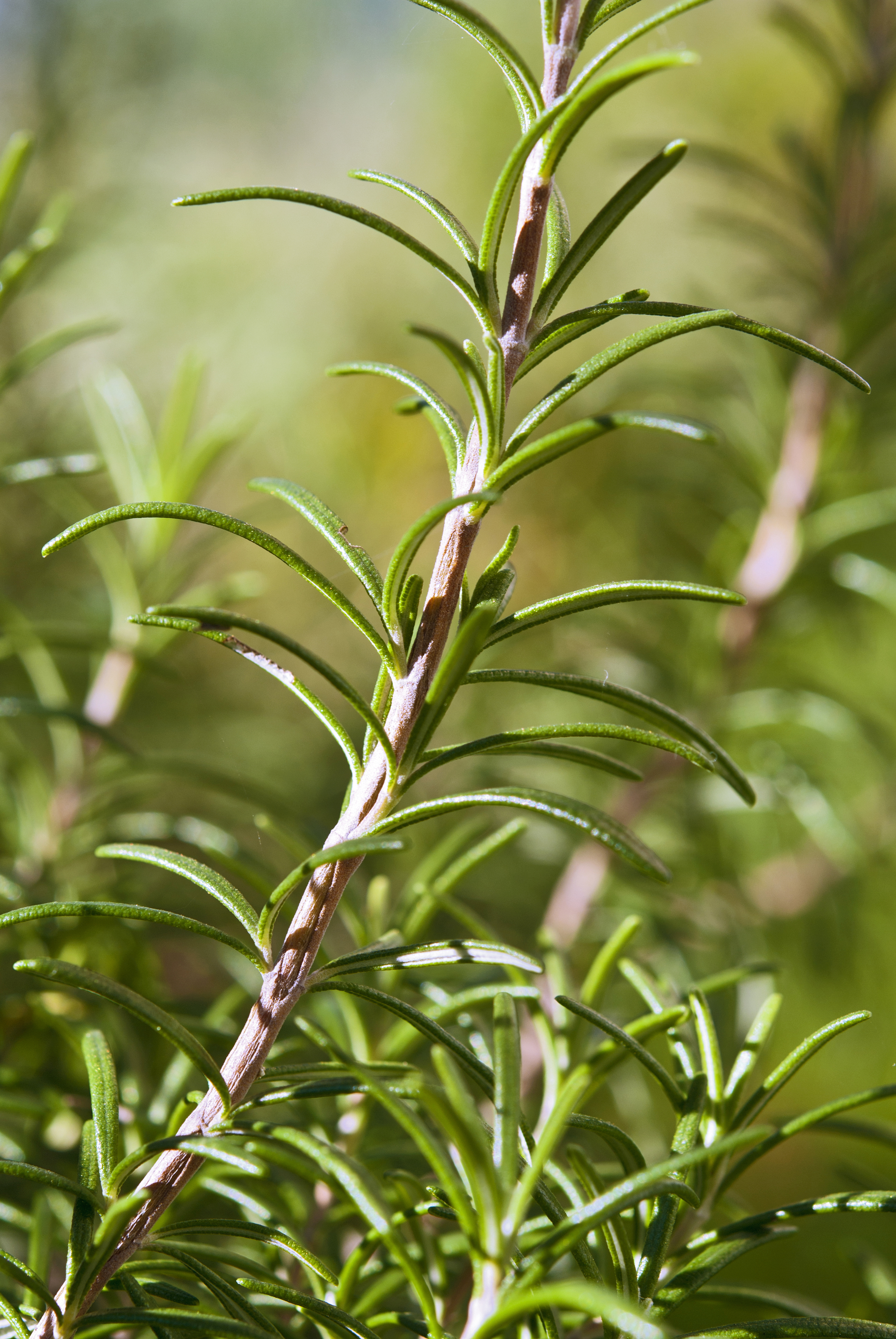 Rosmarinus officinalis, locaton: northern Italy